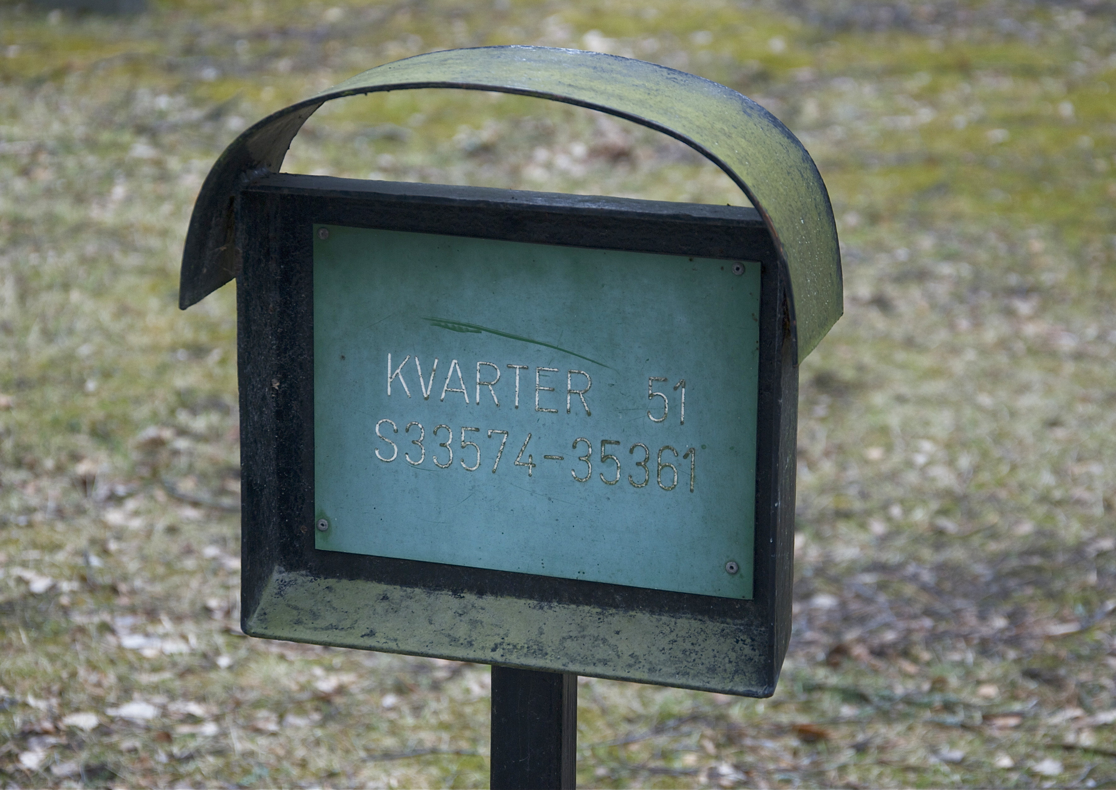 Skylt på skogskyrkogården.